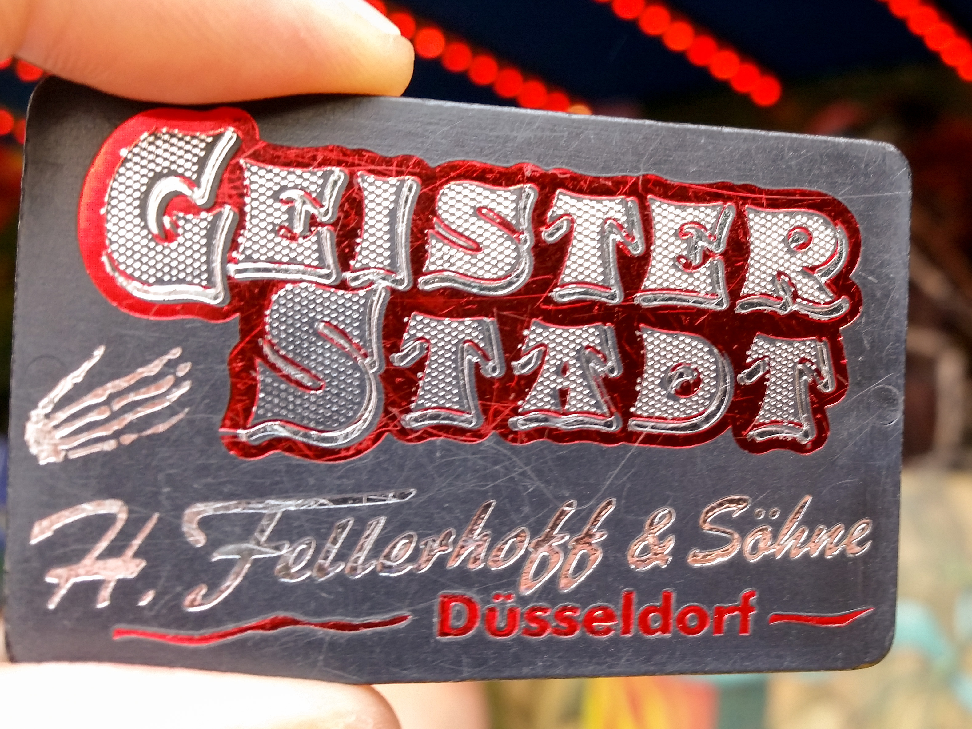 Token for ghost train Geisterstadt